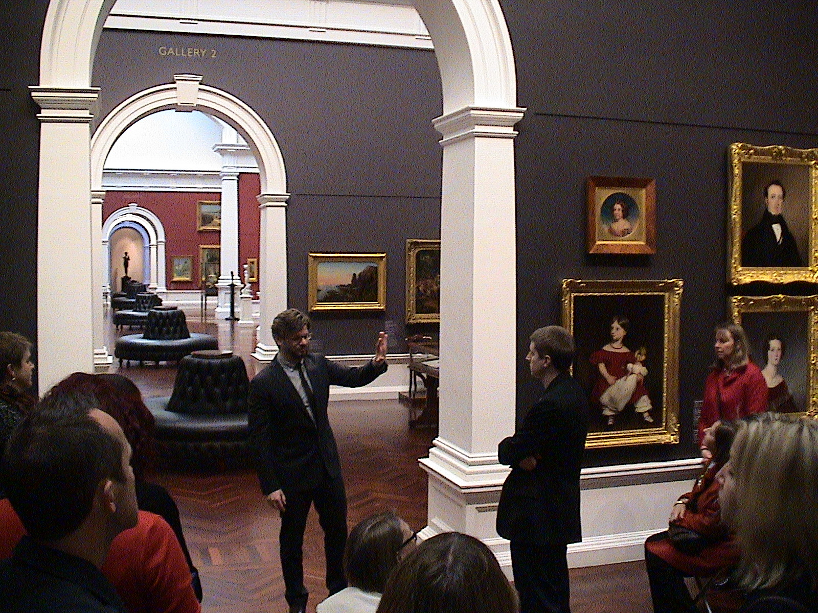 AGSA director Nick Mitzevich addressing Museums Australia conference delegates, 24 September 2012. Original filename = DSC13739.jpg